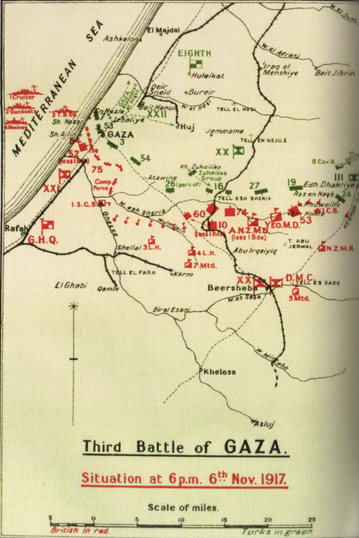 Falls Map 6 of Gaza to Beersheba line 6 November 1917